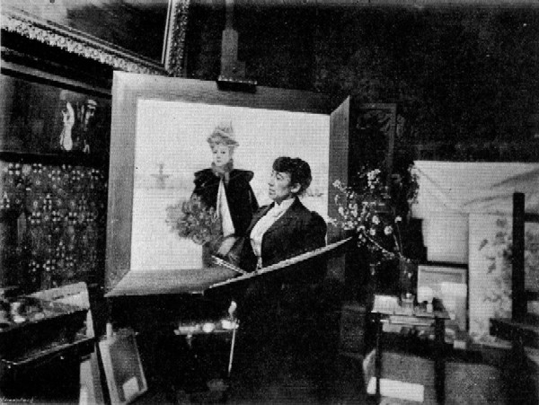 MDLLE. ABBÉMA AT WORK ON HER SALON SUCCESS